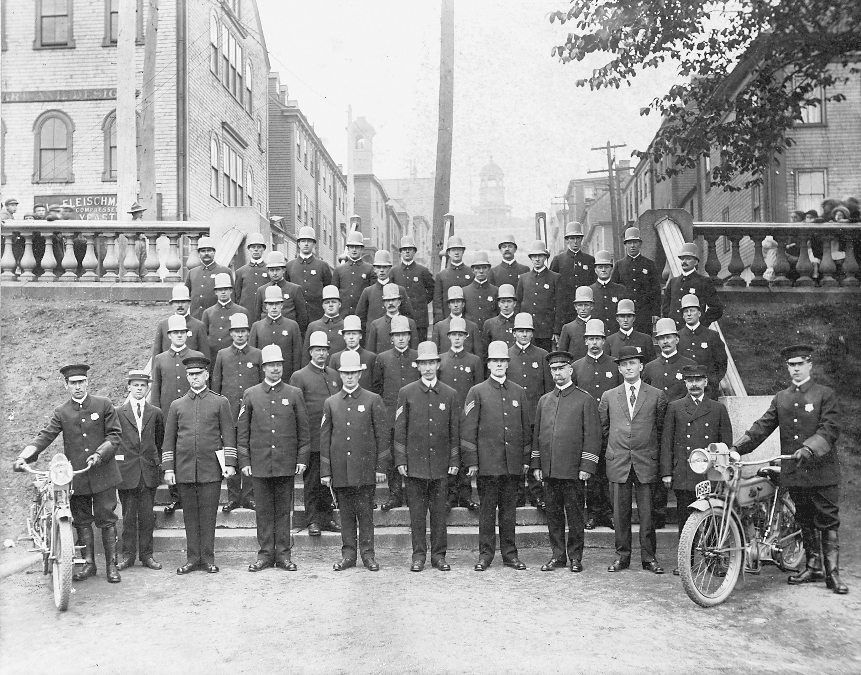 Halifax City Police on the Grand Parade, Halifax, Nova Scotia, Canada, 10 July, 1914. The Halifax Herald for 11 July 1914 reported that: "There was a general inspection of the Halifax police force yesterday afternoon on the Parade. The policemen were out in full force with the exception of one or two who are on the sick list. The inspection was by His Worship Mayor Bligh and Controller Harris. Controllers Hoben and Scanlan were also present. Mayor Bligh add rest [sic] the men in a very flattering manner, congratulating them upon the high standard of efficiency which they have attained and assuring them of the protection and cooperation of the Board of Control. Addresses were then heard from Controllers Harris, Scanlan and Hoben in which they offered suggestions for dealing with some of the problems which the police force has to face and pointing out conditions which make it difficult for the law to be properly enforced. Those who have been attending the lectures were given first aid certificates and a large number qualified. Medals were presented those who had successfully completed the gymnasium course at the YMCA...."